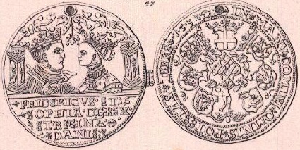 Gold coin/medal of Frederick I of Denmark and Norway. (p.148)